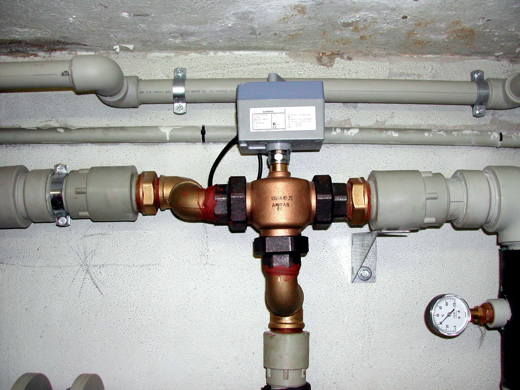 3 ways valve Siemens VXG44.40-25 and SQX65 mover